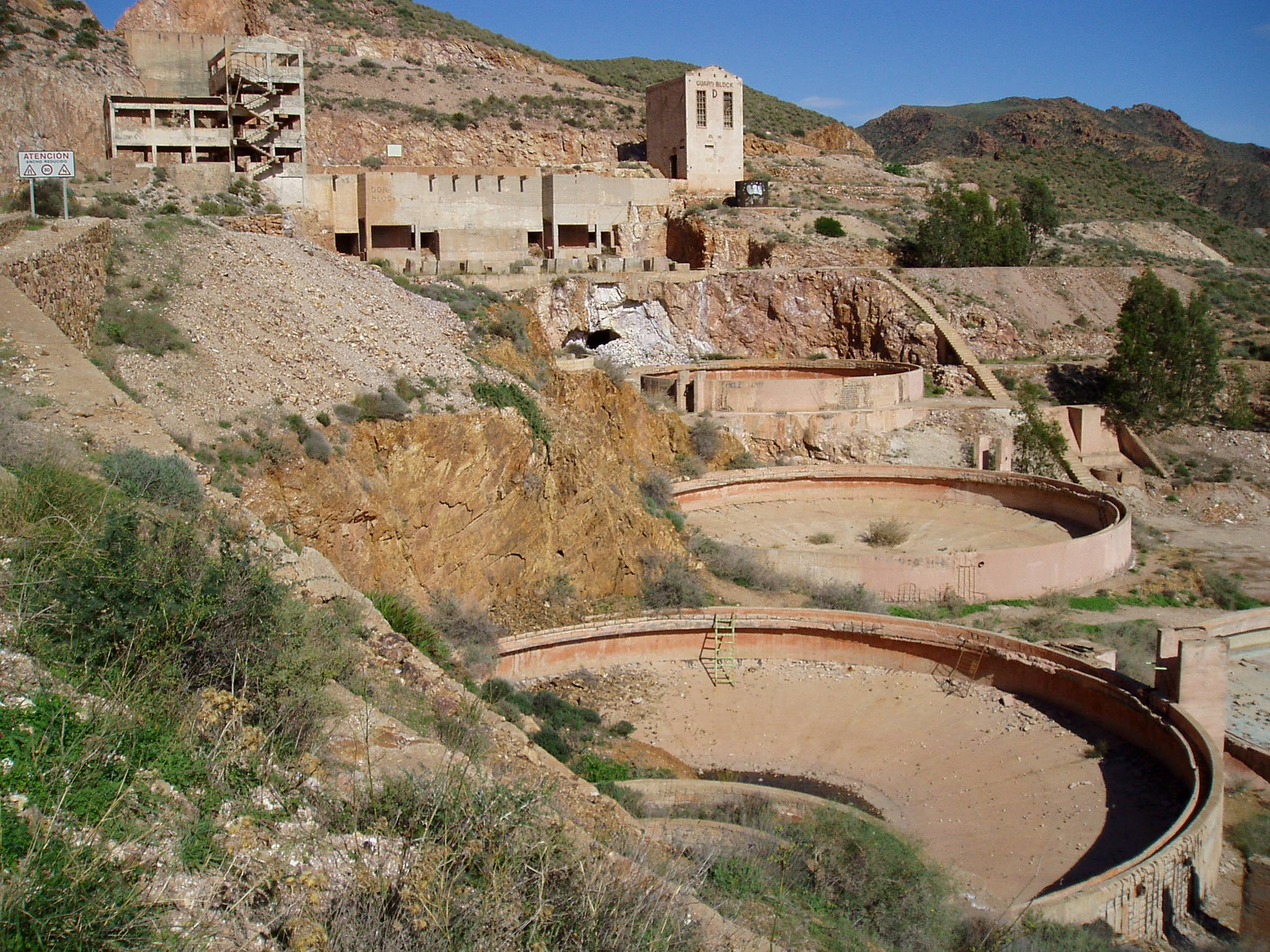 Ruins of the former gold mining factory „Planta Denver“ in Rodalquilar in Andalusia, Spain